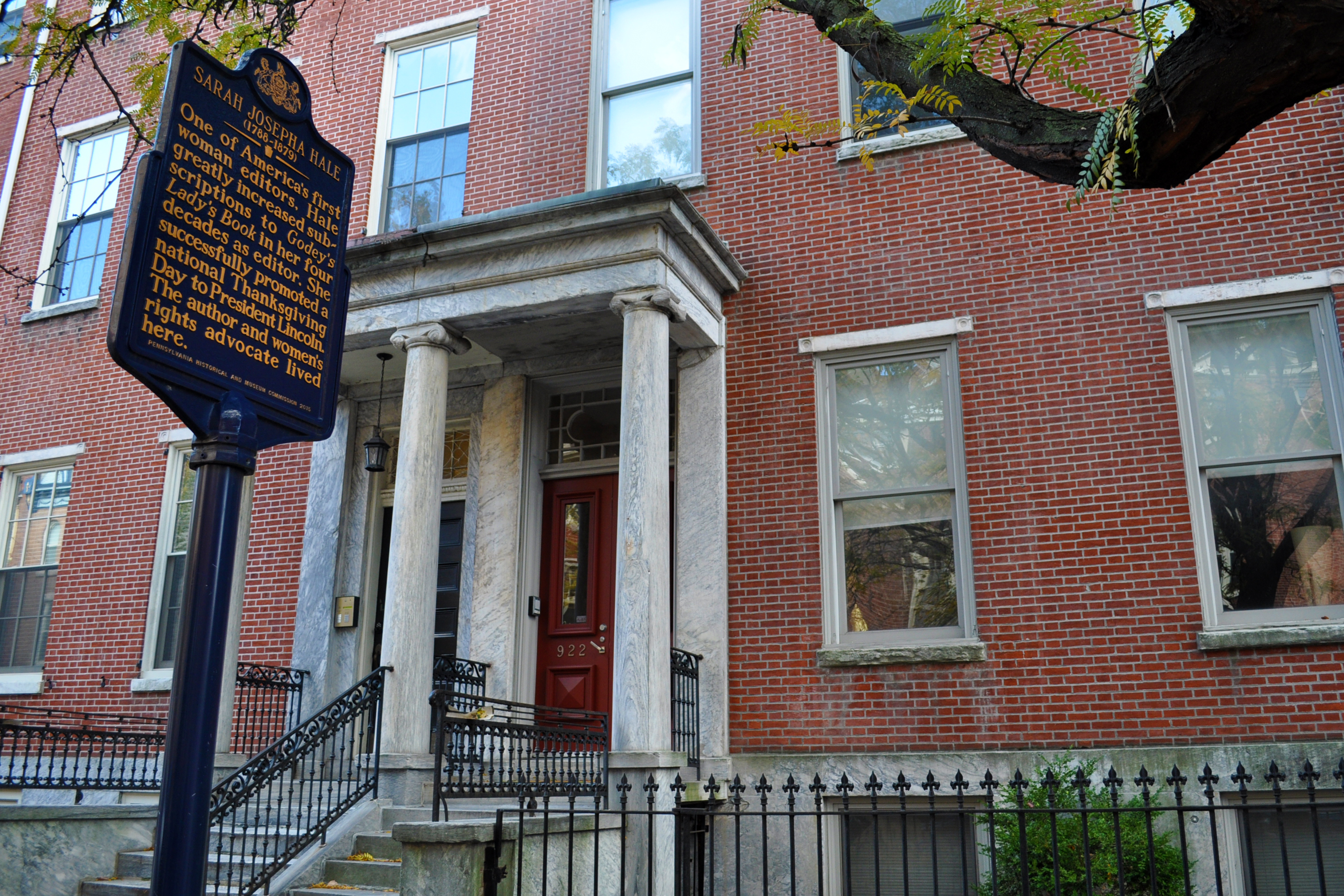 Sarah Josepha Hale (1788-1879). One of America's first woman editors. Hale greatly increased subscriptions to Godey's Lady's Book in her four decades as editor. She successfully promoted a national Thanksgiving Day to President Lincoln. The author and women's rights advocate lived here. (Historical Marker at 922 Spruce St. Philadelphia PA - Pennsylvania Historical and Museum Commission 2015)